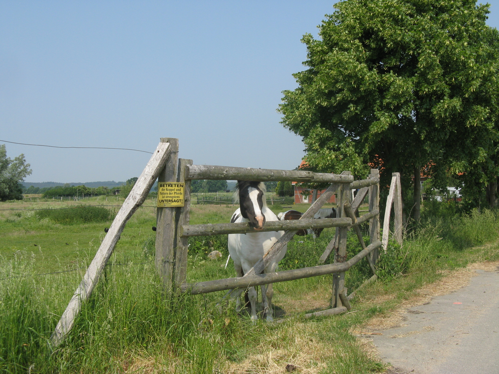 Horse pasture in Valluhn, Mecklenburg-Vorpommern, Germany